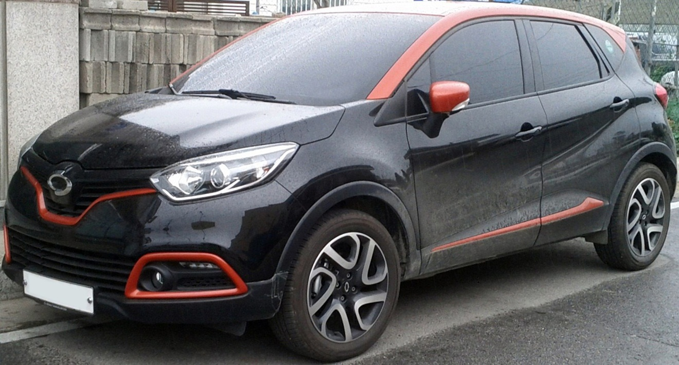 Renault Samsung QM3